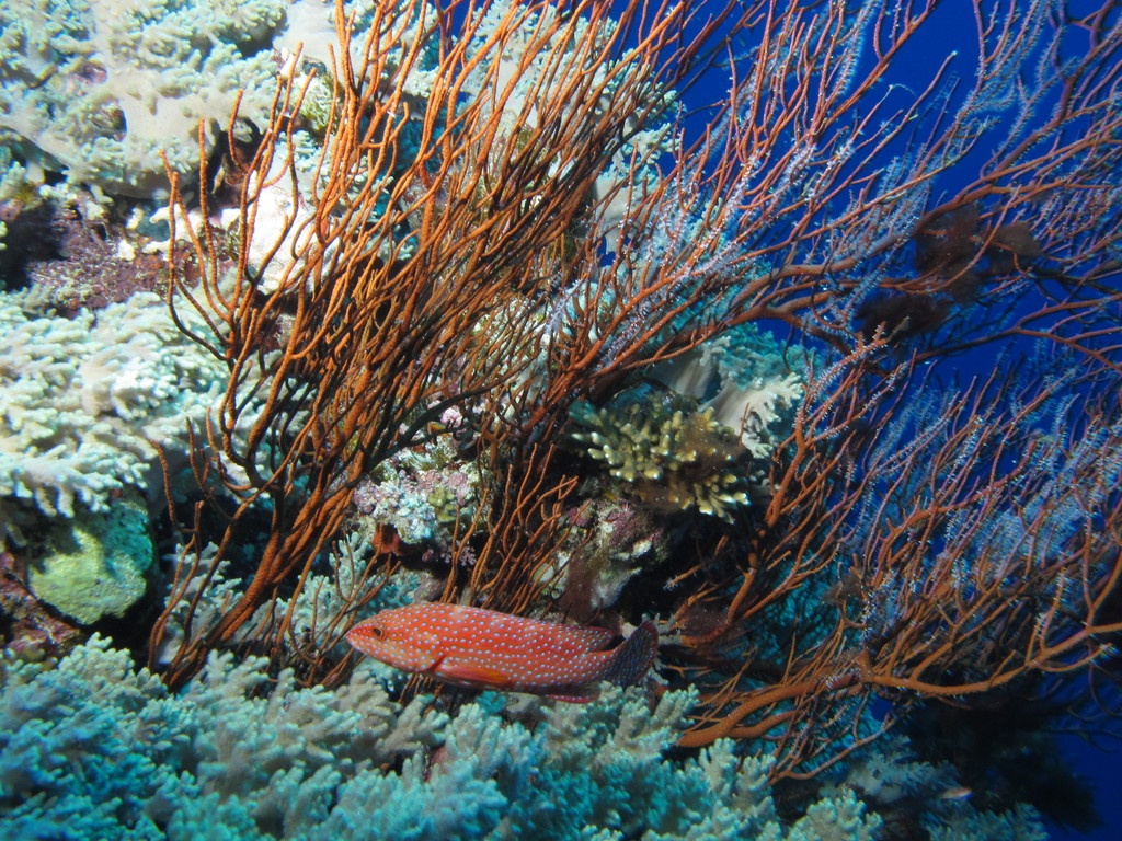 Coral hind cruising past a mostly dead gorgonian.